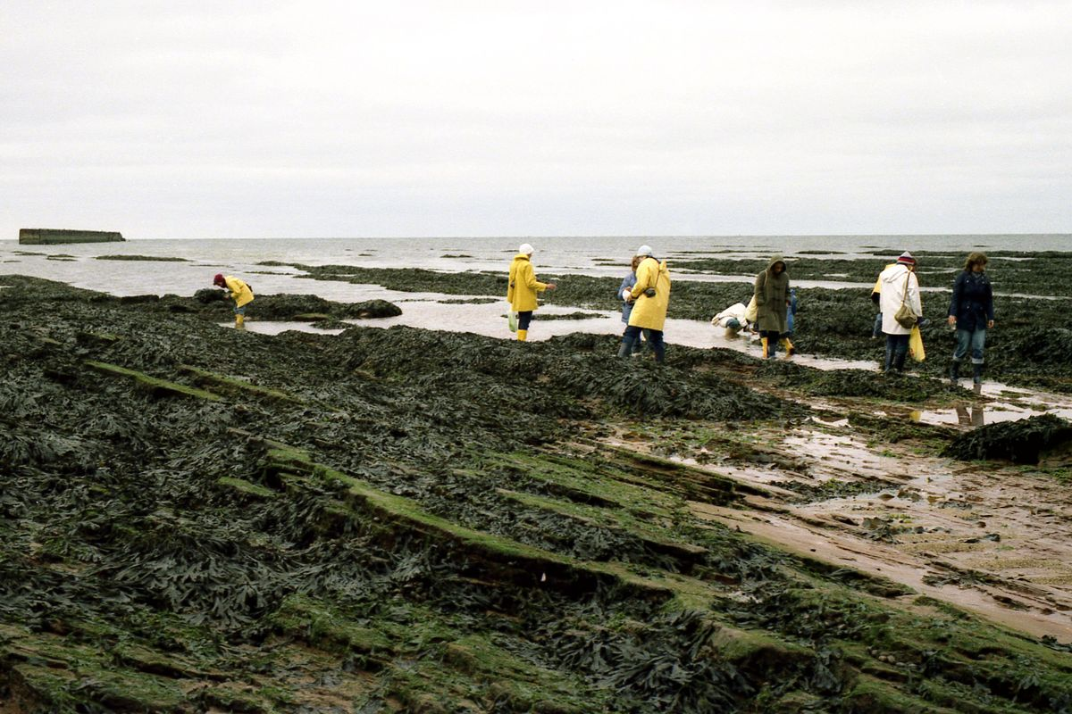 rocky littoral of Heligoland (Germany) with Fucus and other algae